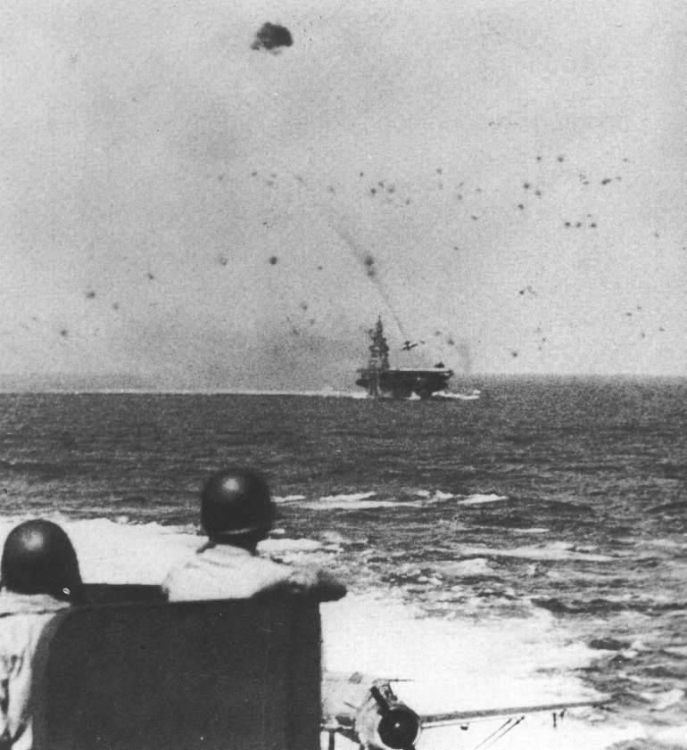 Part of the anti-aircraft gun crew of the Battleship New Jersey (BB-62), watching helplessly, as a Japanese kamikaze plane prepares to strike the aircraft carrier Intrepid (CV-11) on 25 November 1944. (U.S. Naval Academy)